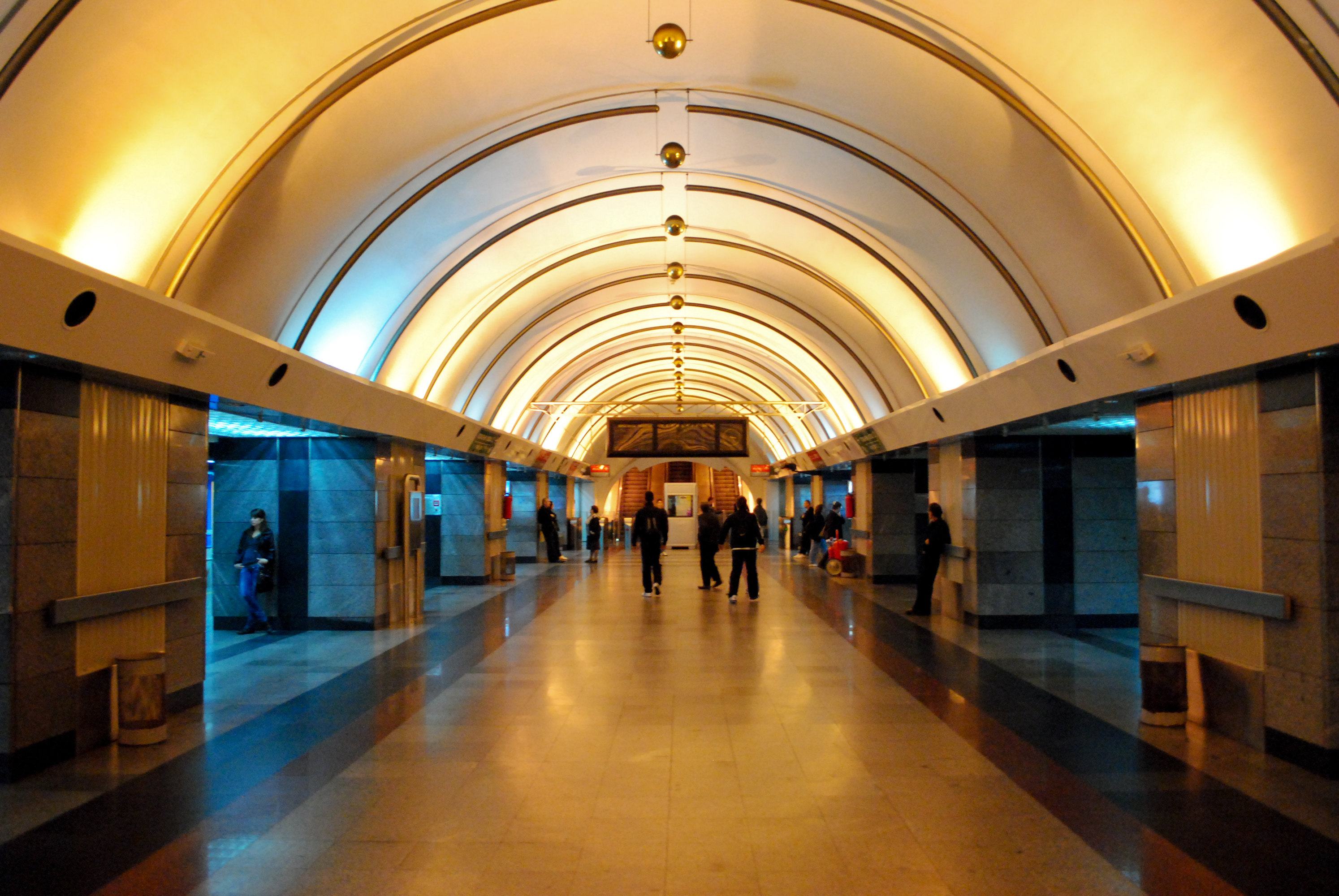 Vukov Spomenik railway station, Belgrade, Serbia